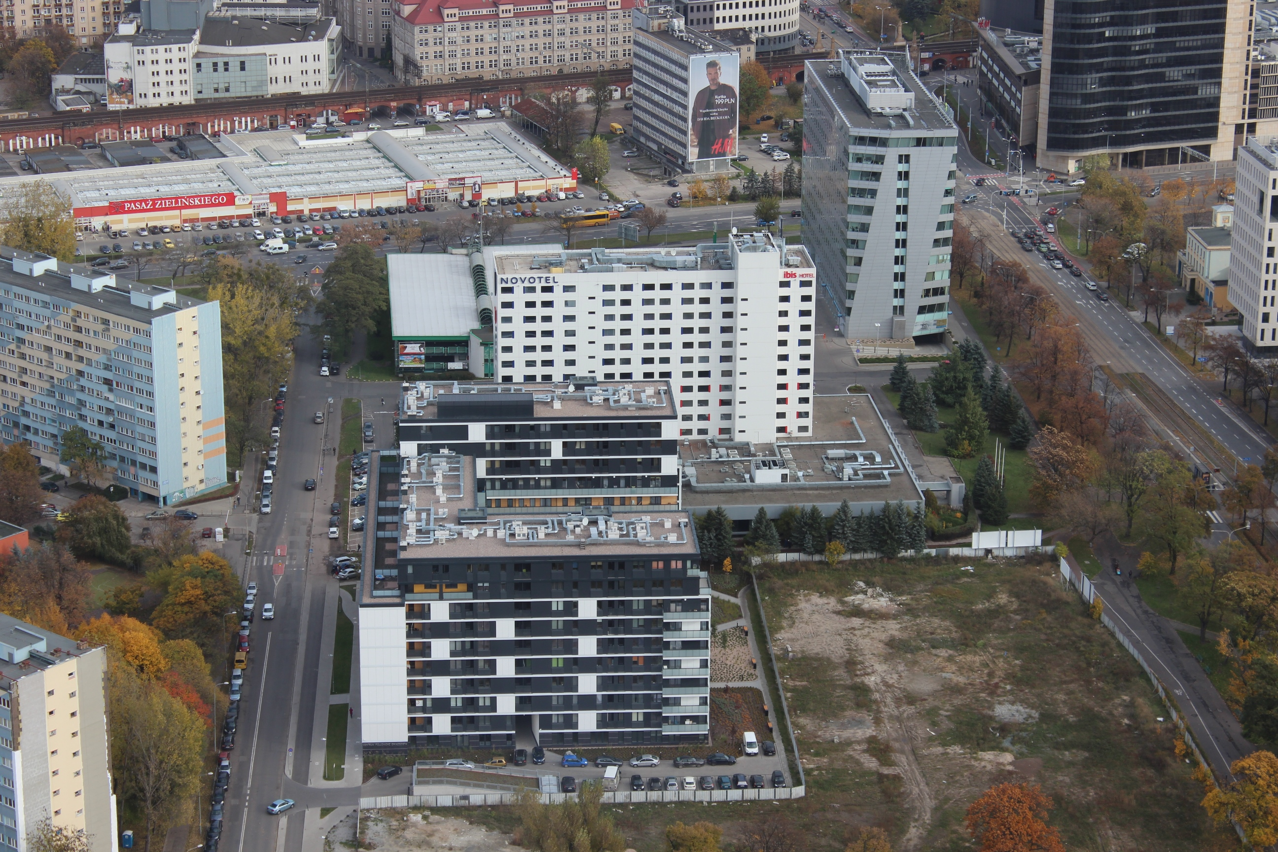 Hotel Wrocław (Novotel Wrocław Centrum, Ibis Wrocław Centrum)